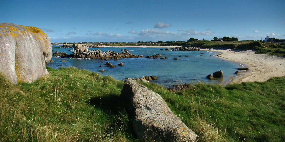 Sea shore near Plouescat, Finistère, Bretagne, France.